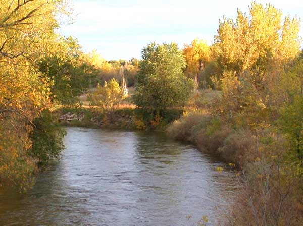 Cache La Poudre River as it flows through northern Fort Collins (taken Oct. 14, 2004) © 2004 Matthew Trump